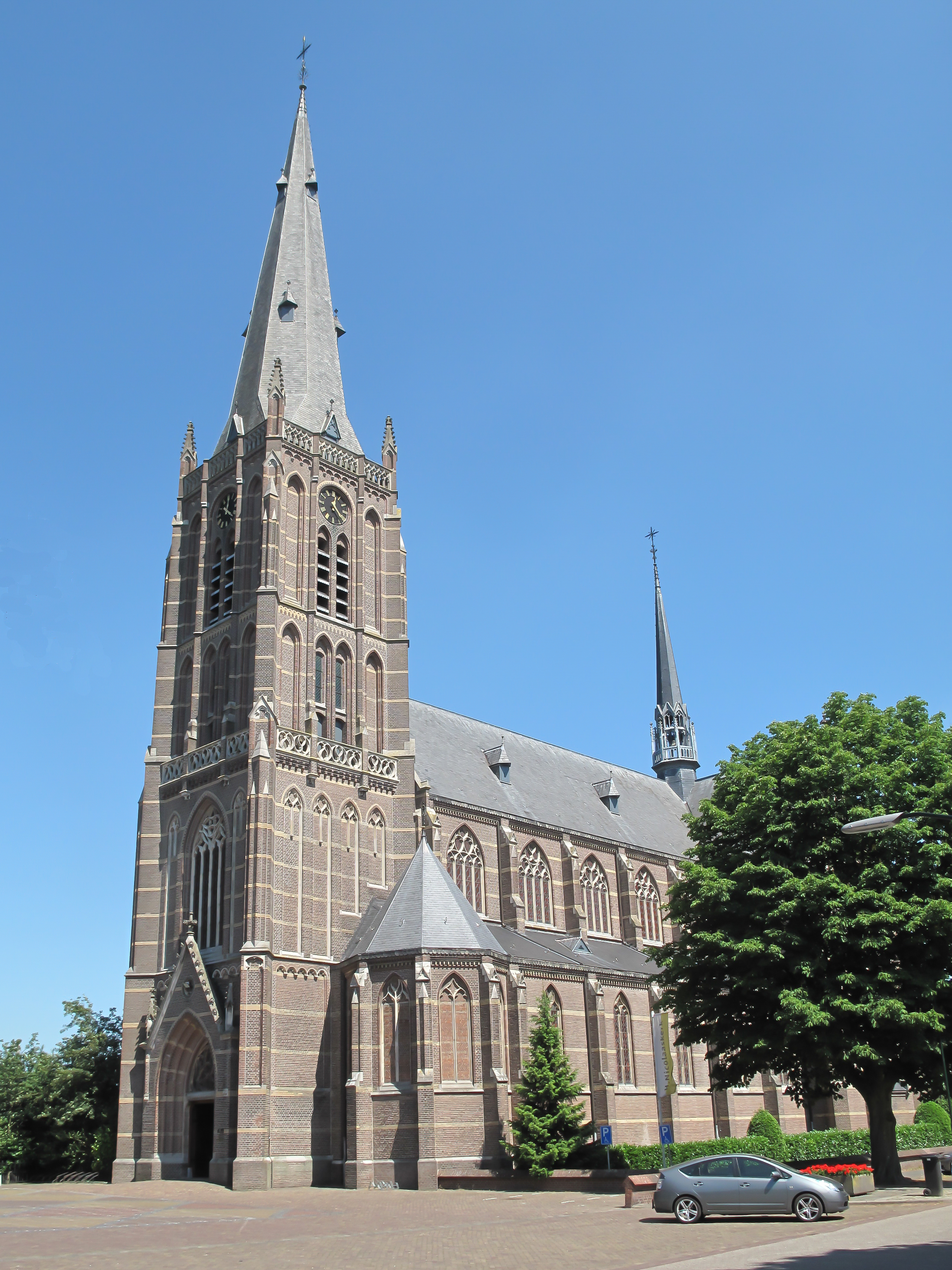 Helvoirt, church: de Sint Nicolaaskerk